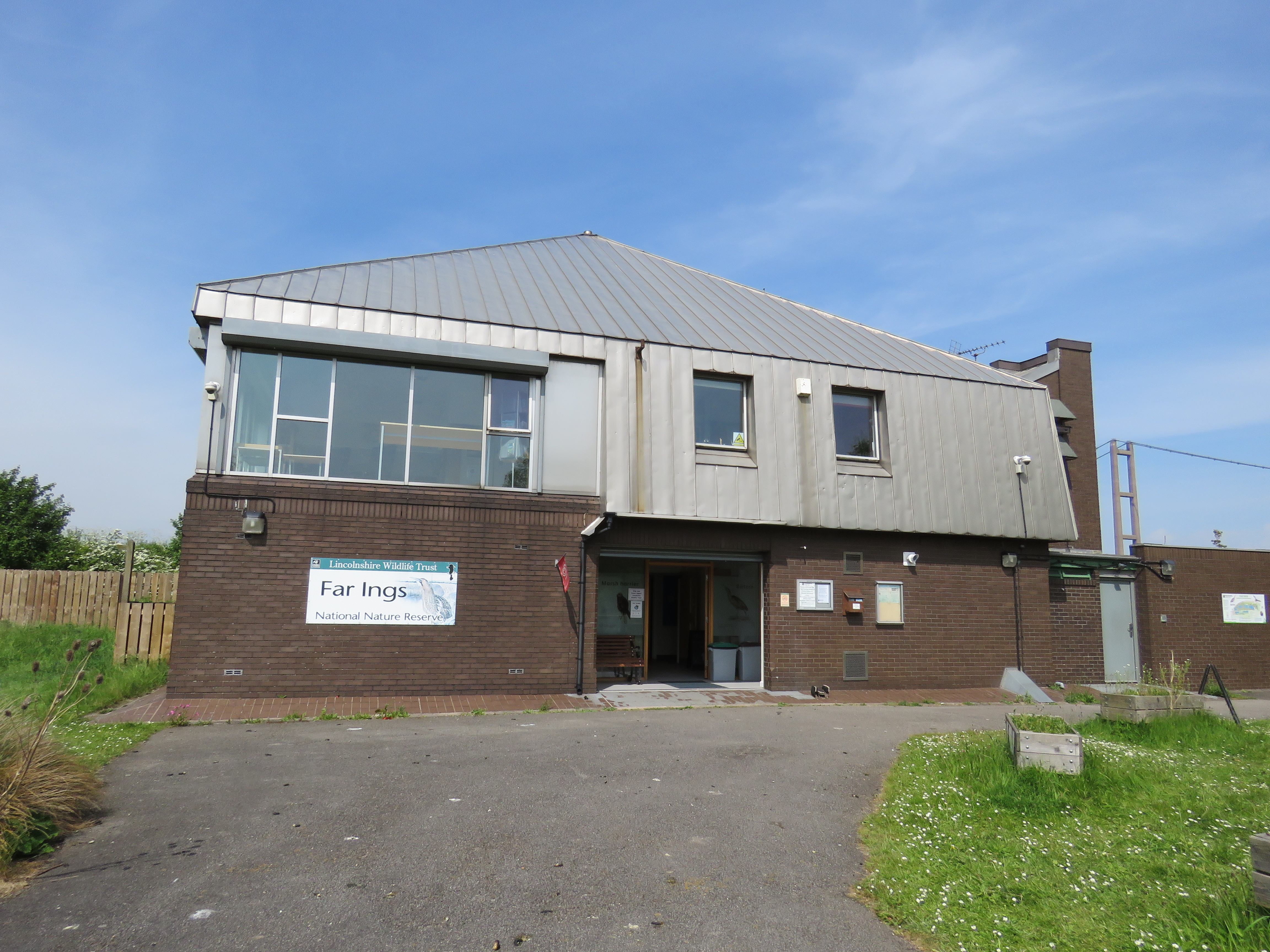 visitor centre, Far Ings nature reserve, Lincolnshire